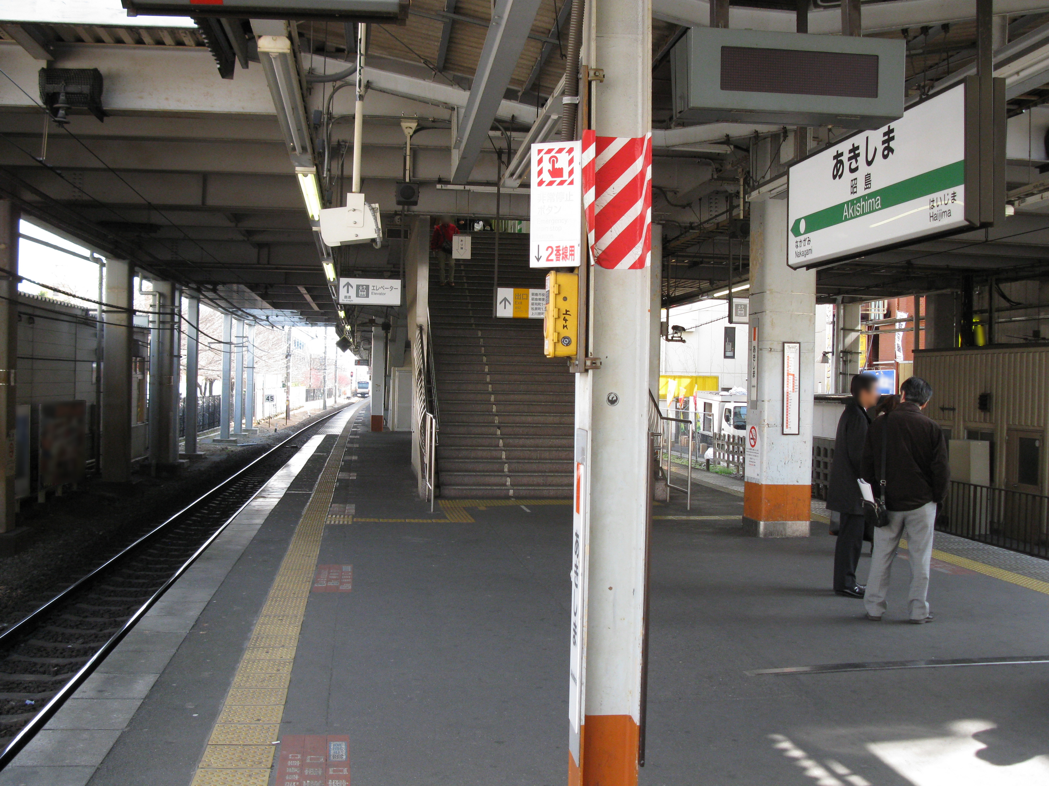 Akishima Station platform (East Japan Railway Ōme Line)